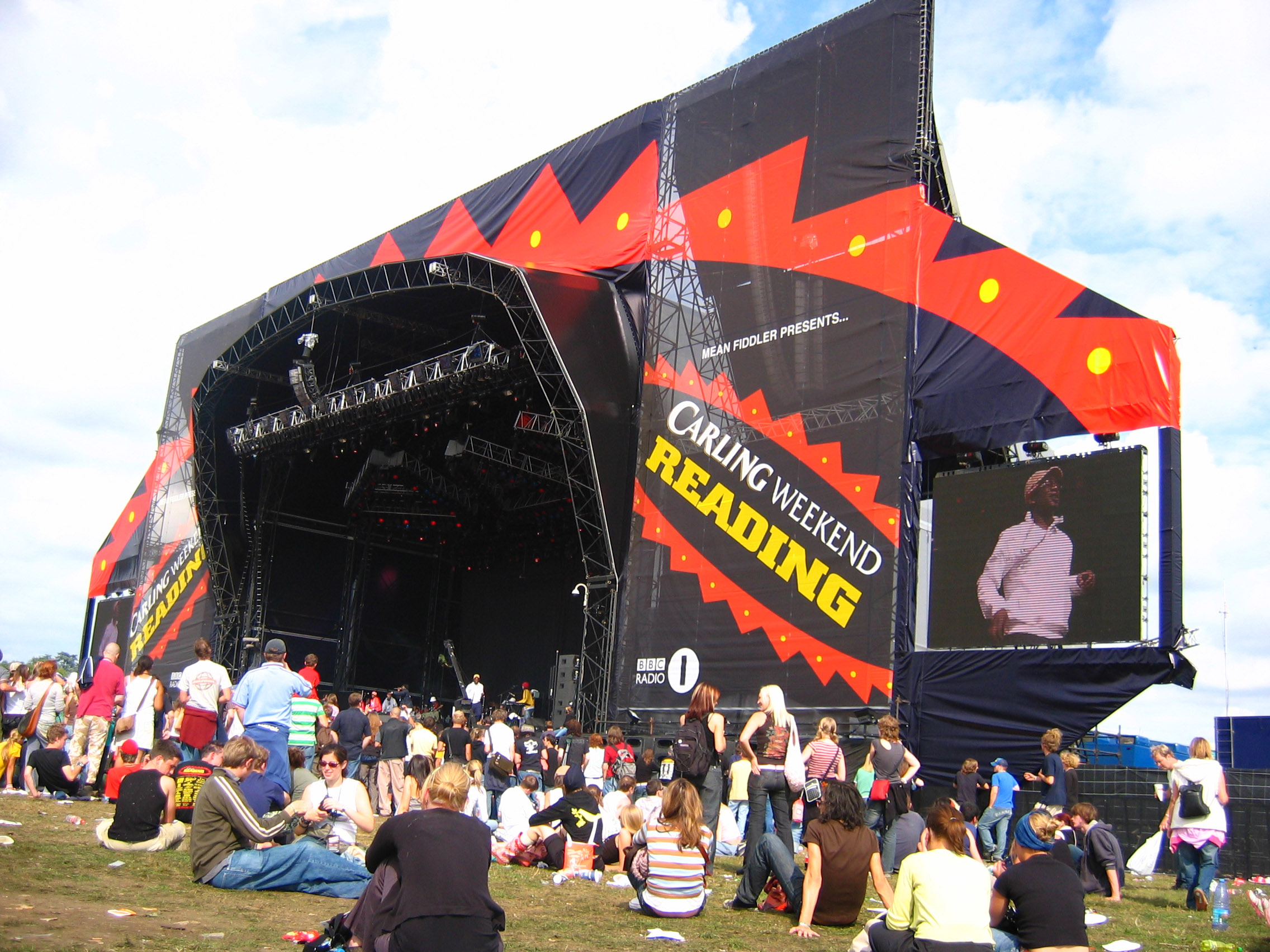 The main stage of the 2005 Reading Festival. Taken by C Ford, 28th August 2005.